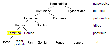 Hominoid taxonomy, diagram 7 (c. 2005, following Groves' splitting of Hylobates into 4 genera).